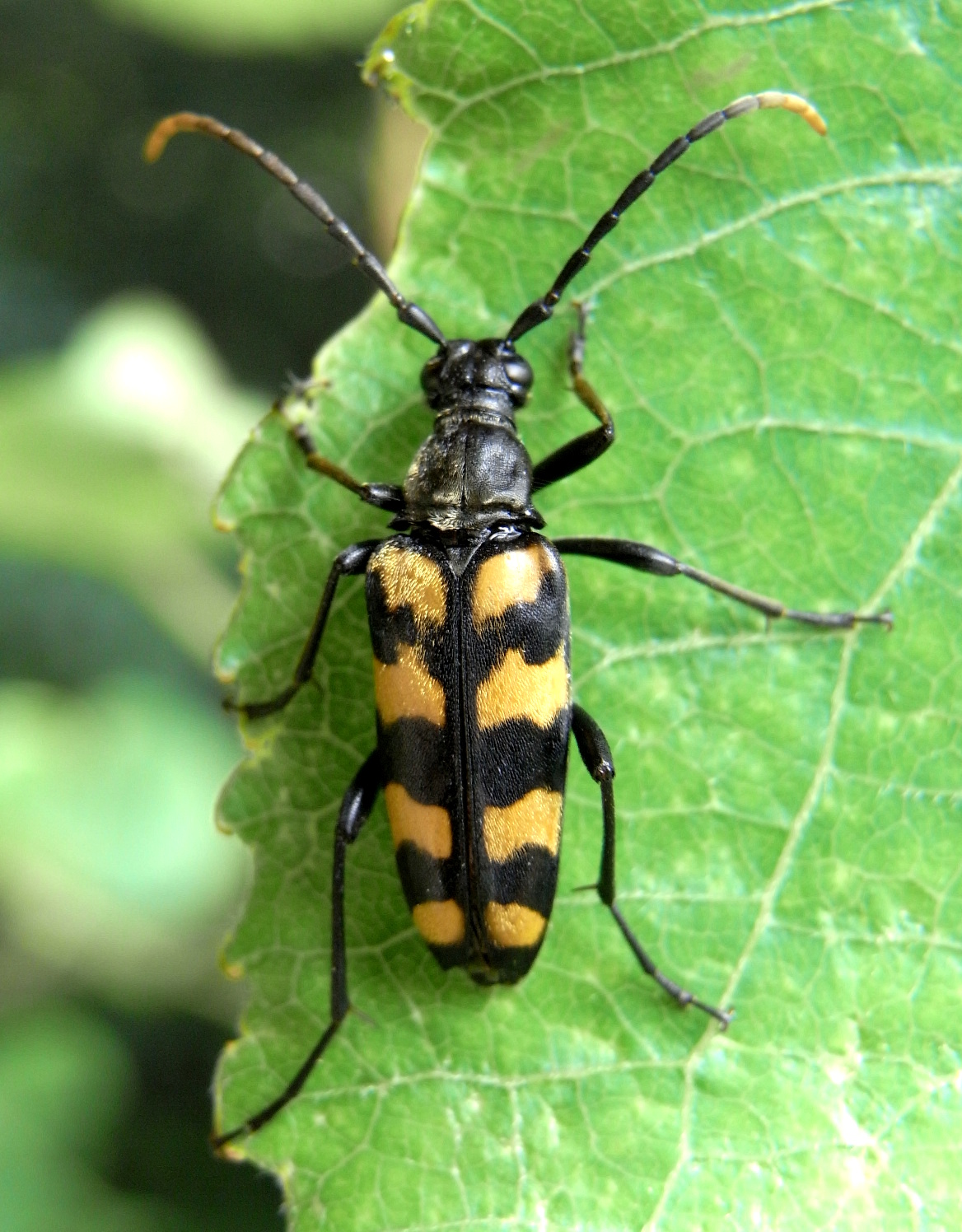 Longhorn beetle (Leptura quadrifasciata).